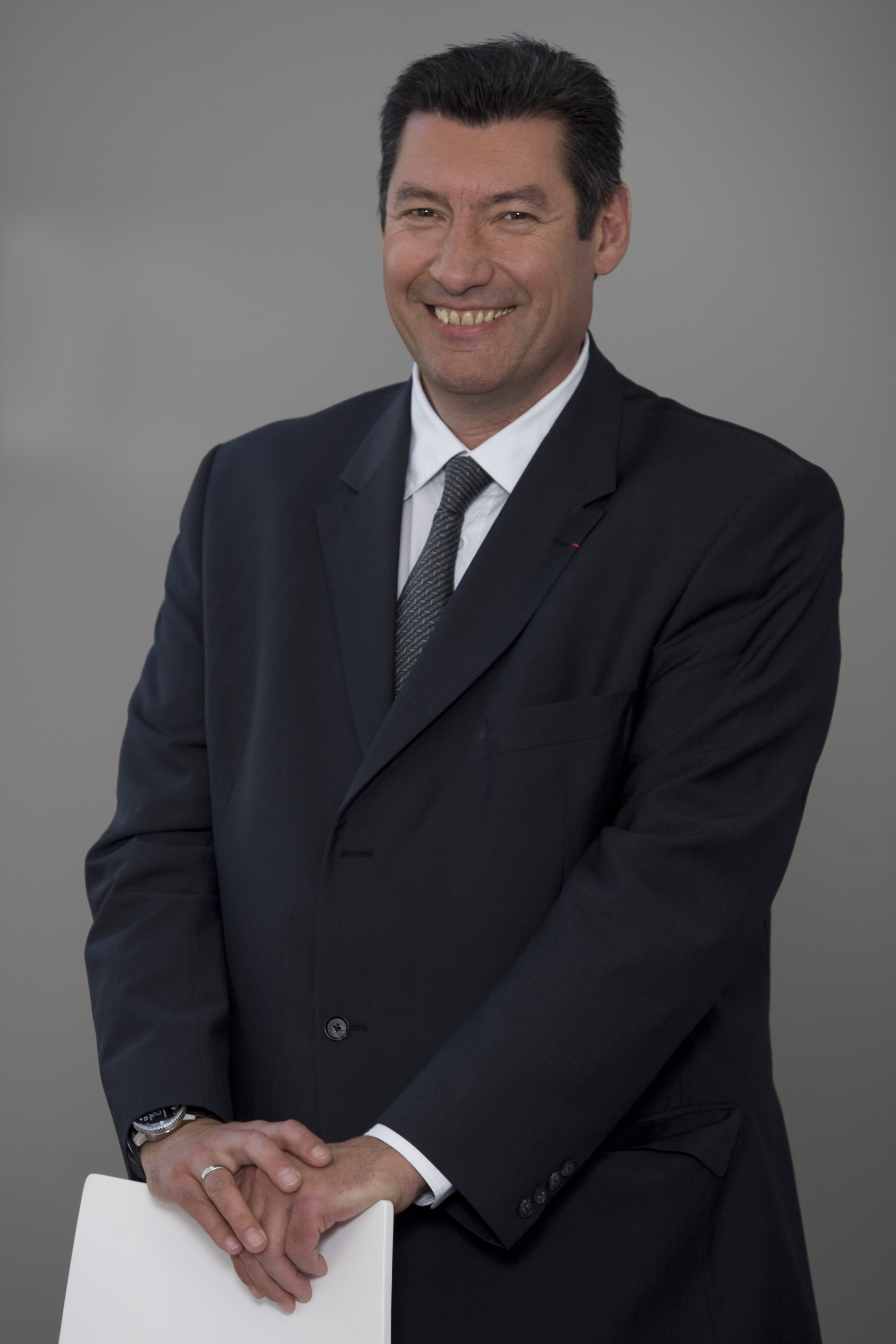 photo Philippe Riboud